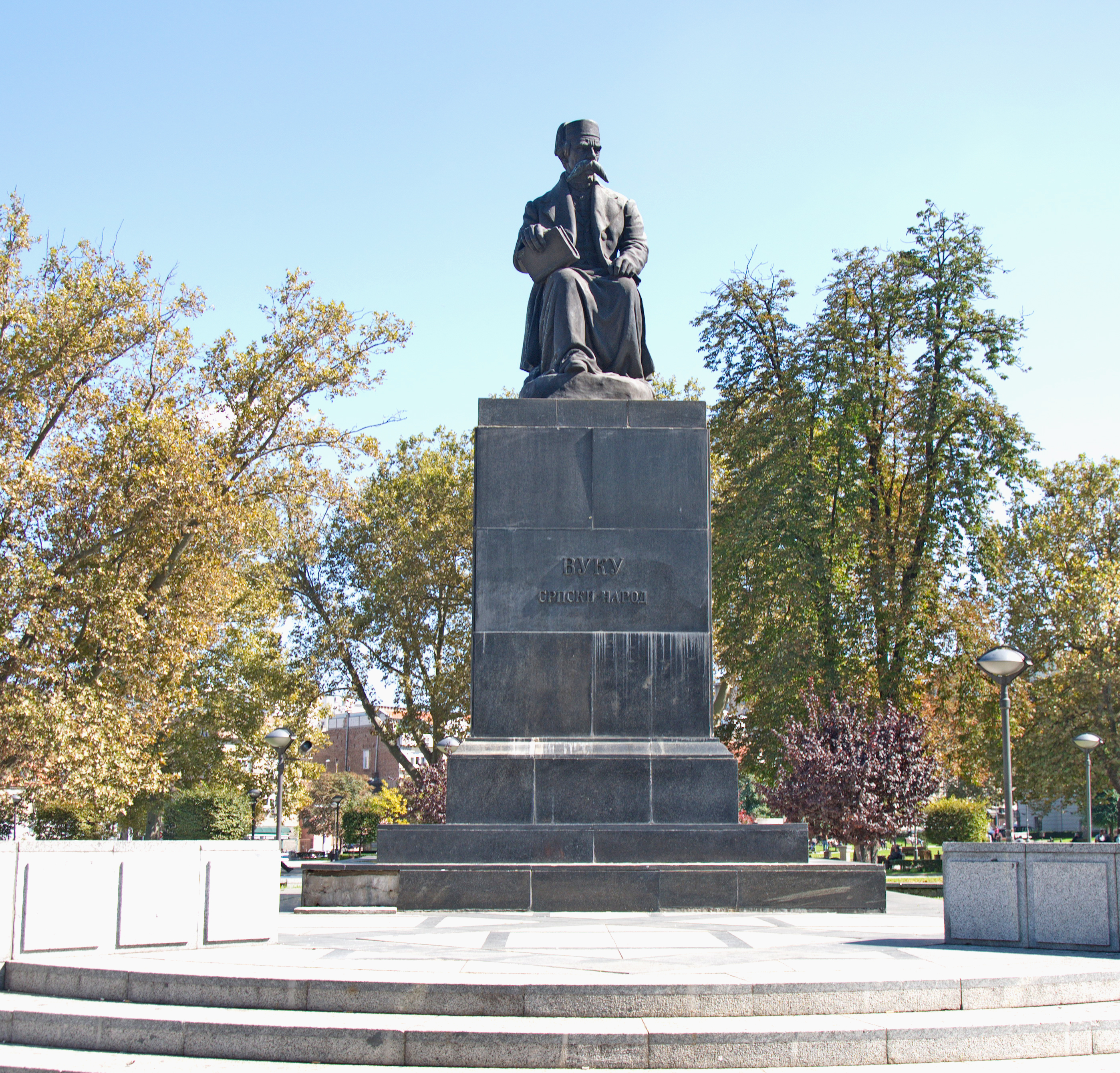 Ideju za podizanje spomenika dala je Srpska književna zadruga 1920. Više godina su, preko priloga, prikupljana sredstva za izgradnju ovog spomenika. Tek je 1932. izlivena figura od bronze i doneta u Beograd. Autor je bio Đorđe Jovanović. Spomenik je visok 7,25 metara, a otkriven je 7. novembra 1937. godine, povodom 150 godina od rođenja Vuka Karadžića. Po ovom spomeniku nazvana je podzemna železnička stanica "Vukov spomenik", a ceo kraj grada se naziva "kod Vuka".